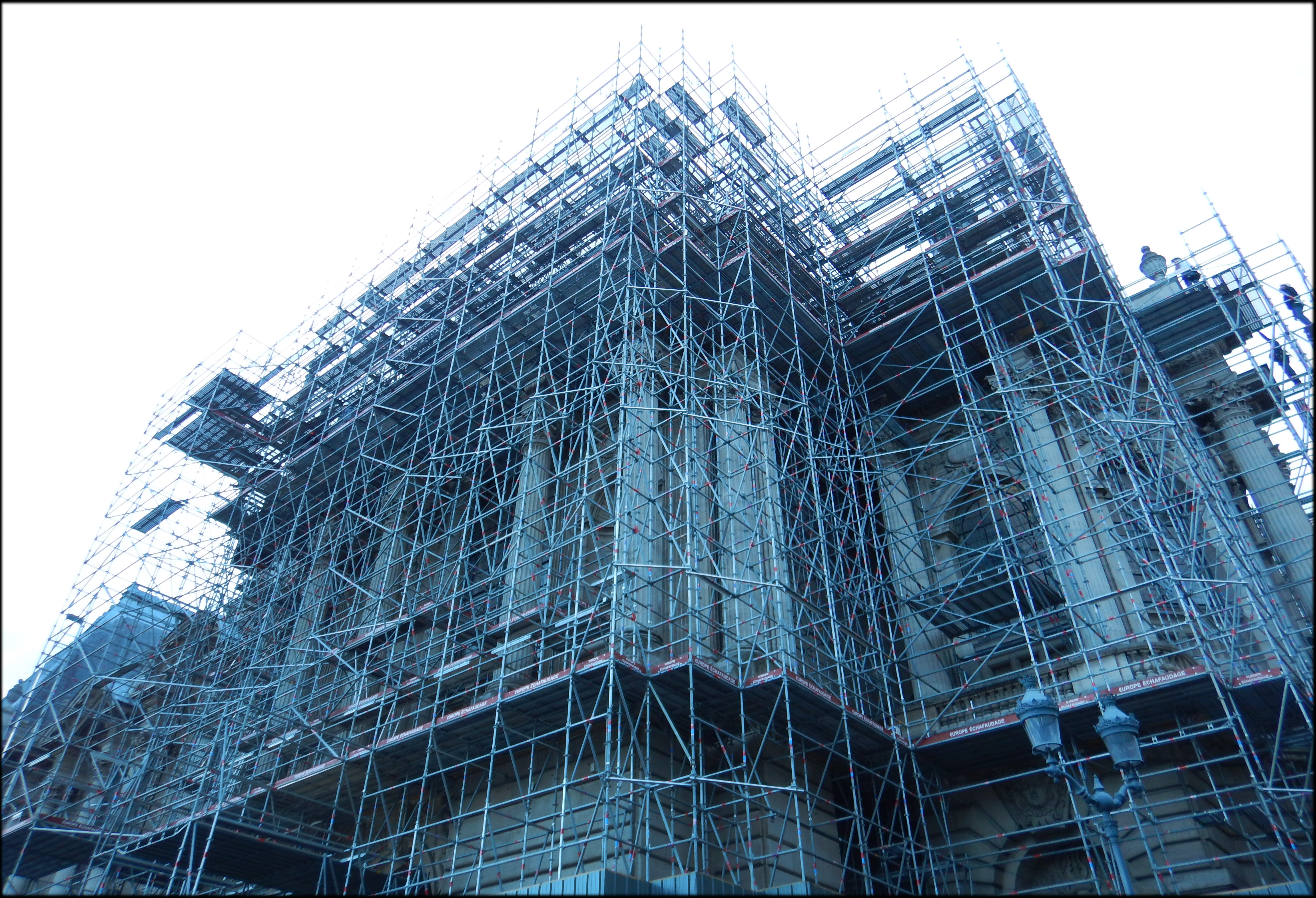 Restoration of Palais des Beaux-Arts de Lille ; Metal scaffolding